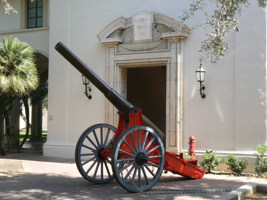 The legendary cannon, stolen by MIT but since returned to its rightful place. (Note the chain that now secures it.)